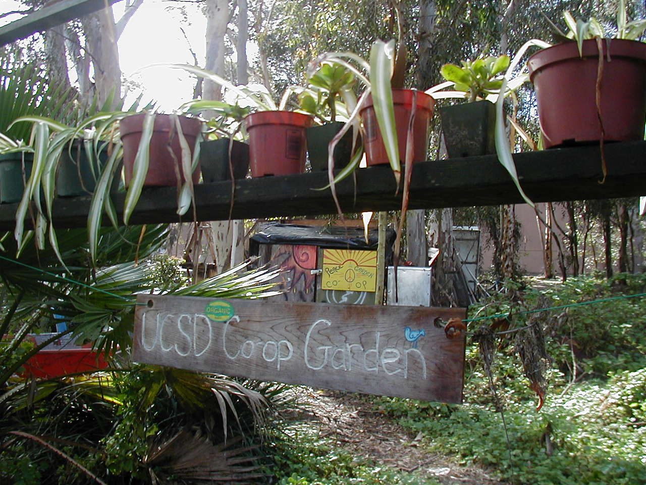 UCSD's co-operative garden at the Che Cafe, a DIY venue and vegetarian restaurant in La Jolla, CA near San Diego